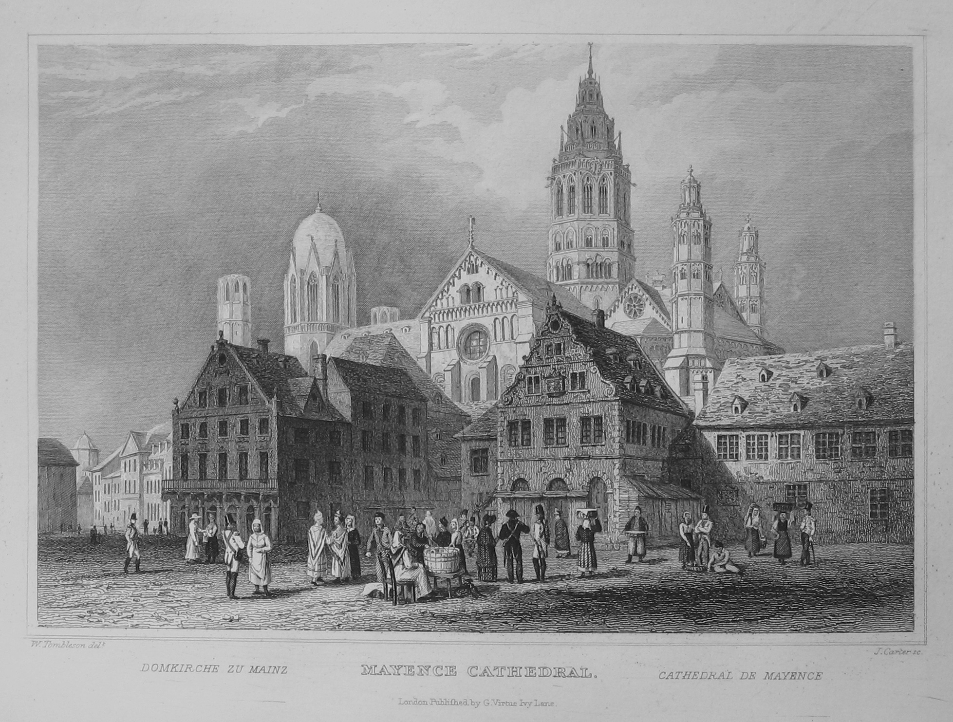 Steel engraving from "Views of the Rhine" by William Tombleson (around 1840): Town of Mainz, Cathedral